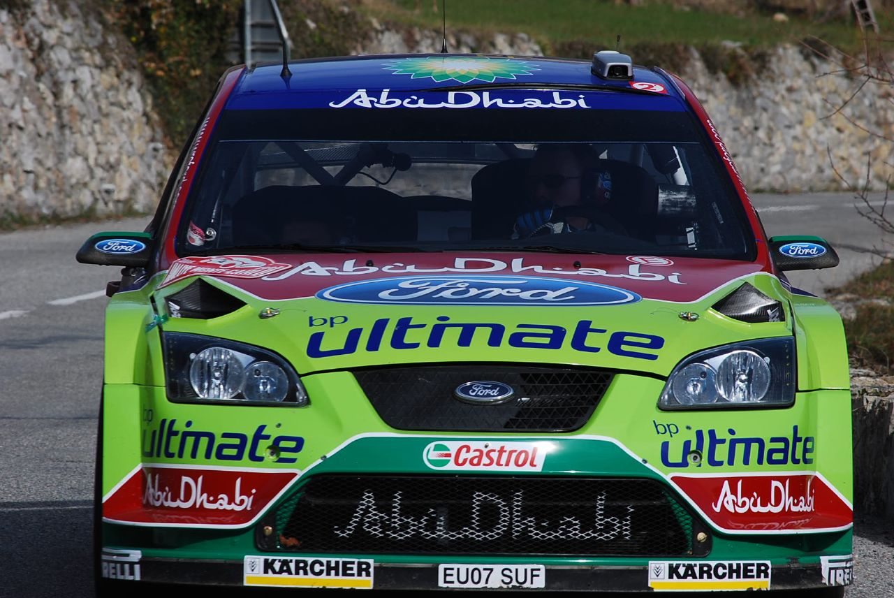 Jari-Matti Latvala driving his Ford Focus RS WRC 07 on a road section during the 2008 Monte Carlo Rally.